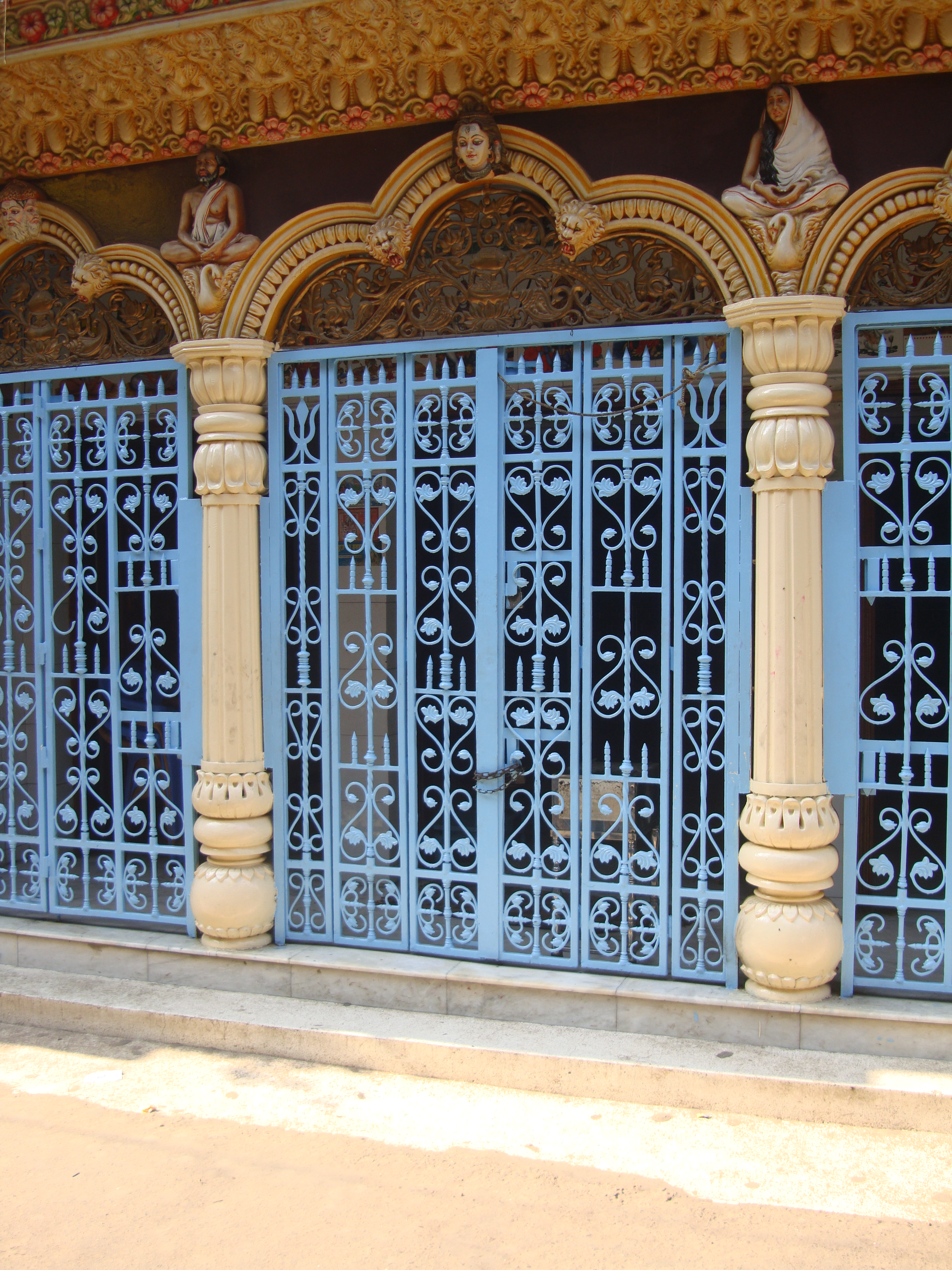 Temple ggggg